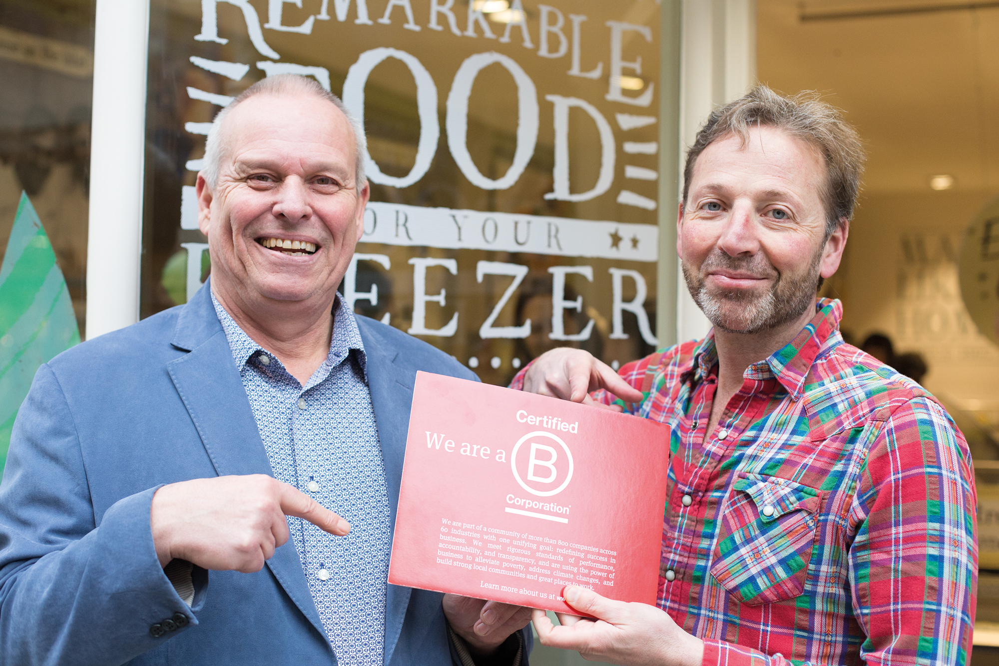 Dale Penfold and Edward Perry, COOK founders